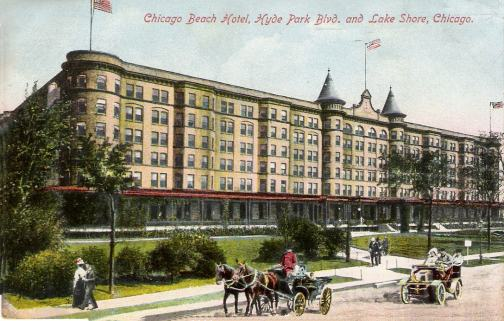 Chicago Beach Hotel